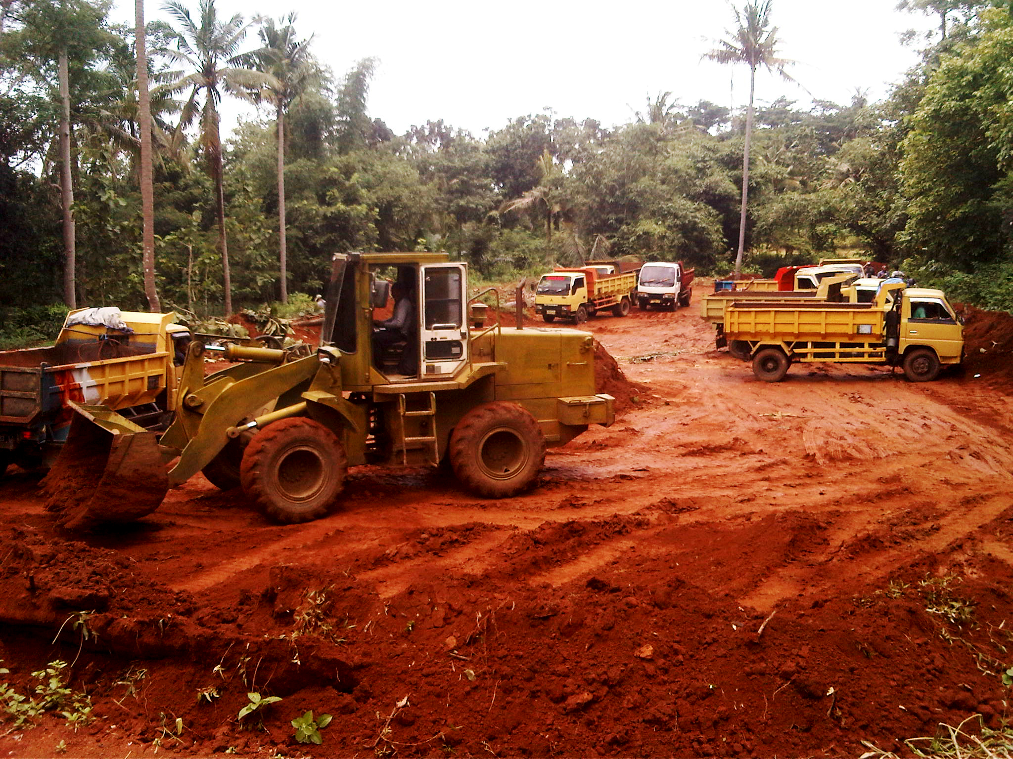 Urugan Tanah adalah suatu pekerjaan yang bertujuan untuk memindahkan tanah dari satu tempat lokasi (sumber tanah) ke tempat lokasi lain yang diinginkan (rumah, gedung, gudang, jalan, sawah, ladang dan perkebunan) sebanyak yang dibutuhkan agar tercapai bentuk dan ketinggian tanah yang diinginkan.Dengan acuan perhitungan ritase atau m3